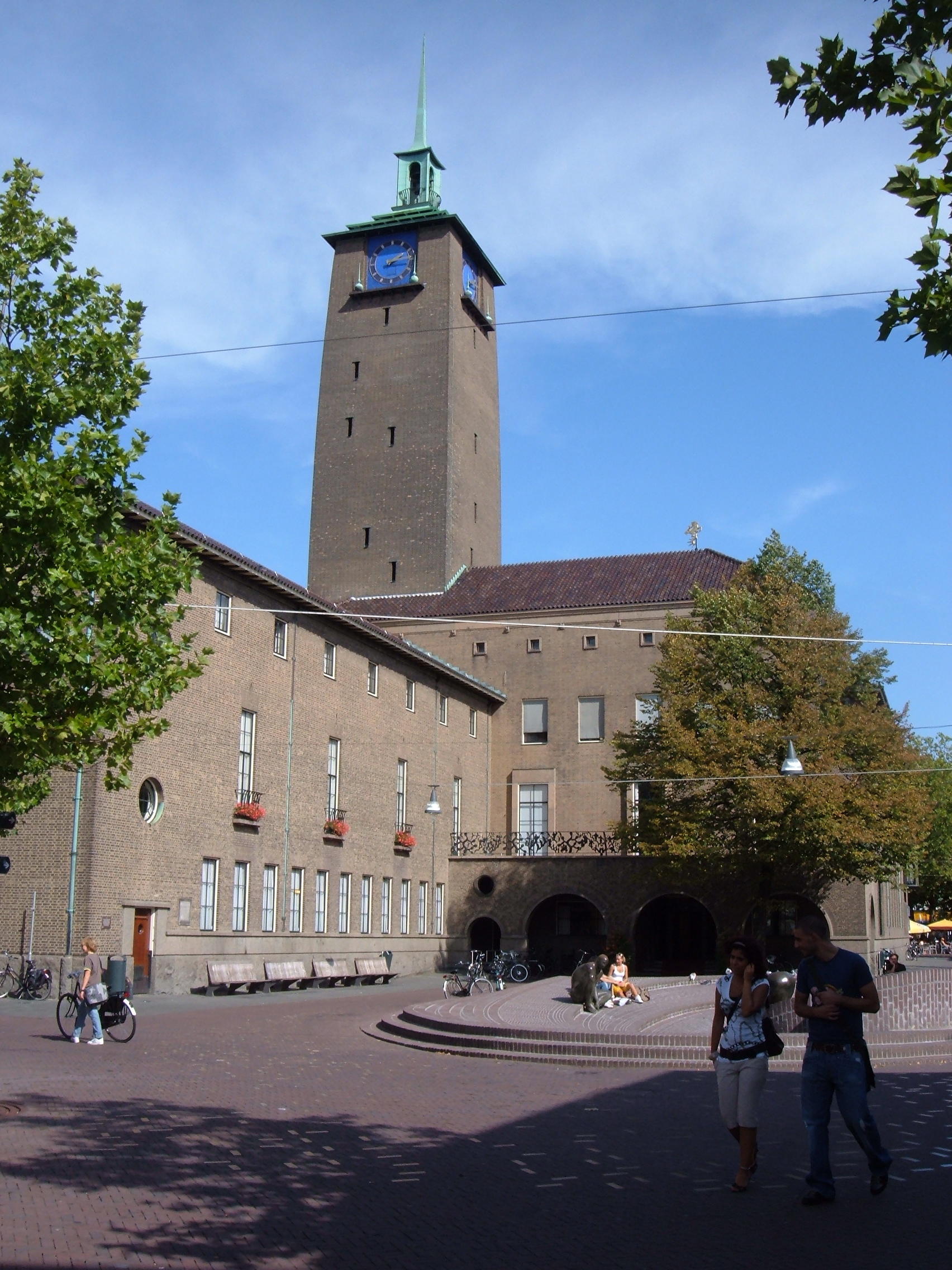 Townhall of Enschede